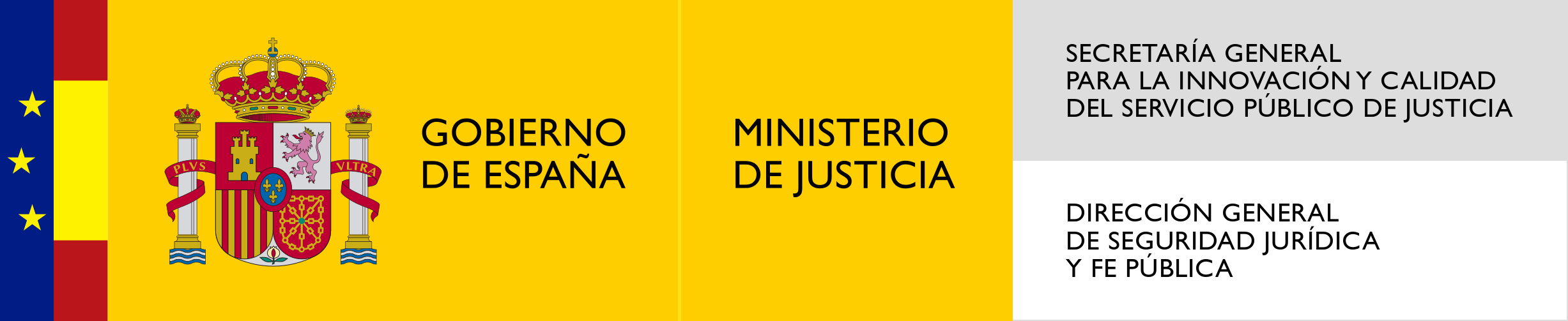 Logo of the General Directorate of Registries and Notaries of Spain